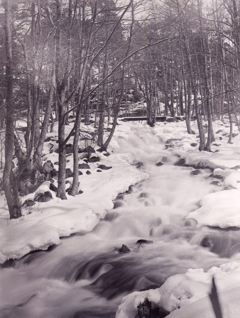 Trollhättan Falls area between Ekeblad's sluice and Polhem's sluice. An unknown creek running into the falls, probably gone today.